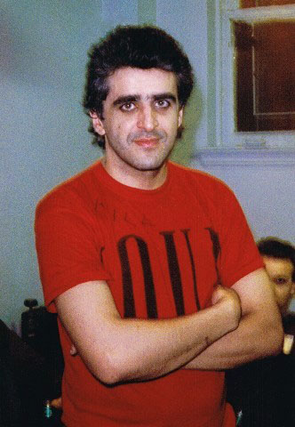 Jaz Coleman at Chicago Metro 1991.